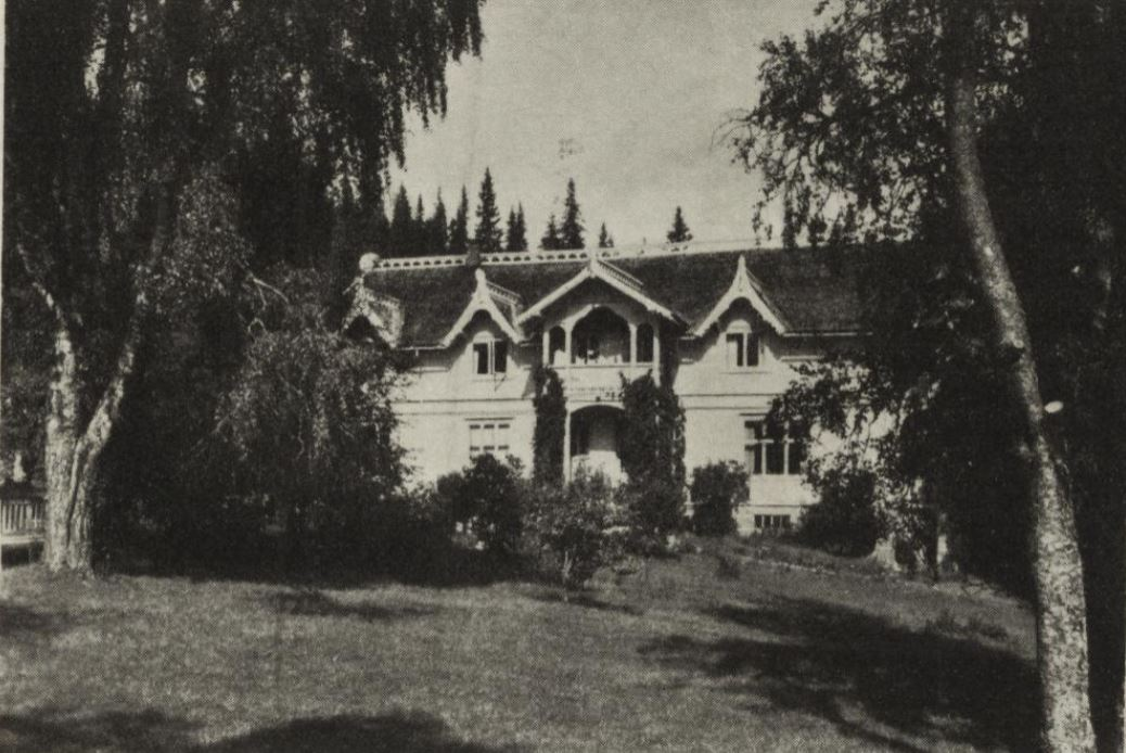 Main building at farm Vestsjøberget, Trysil, Norway. By Ludwig Zapffe ca 1900